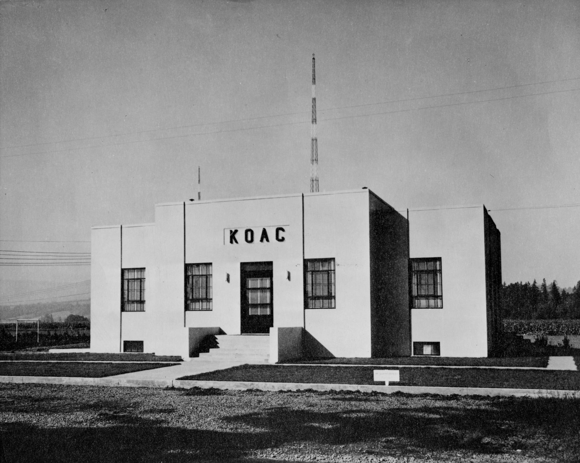 Original Collection: Harriet's Collection Item Number: HC0598 You can find this image by searching for the item number by clicking here. Want more? You can find more digital resources online. We're happy for you to share this digital image within the spirit of The Commons; however, certain restrictions on high quality reproductions of the original physical version may apply. To read more about what “no known restrictions” means, please visit the Special Collections & Archives website, or contact staff at the OSU Special Collections & Archives Research Center for details.